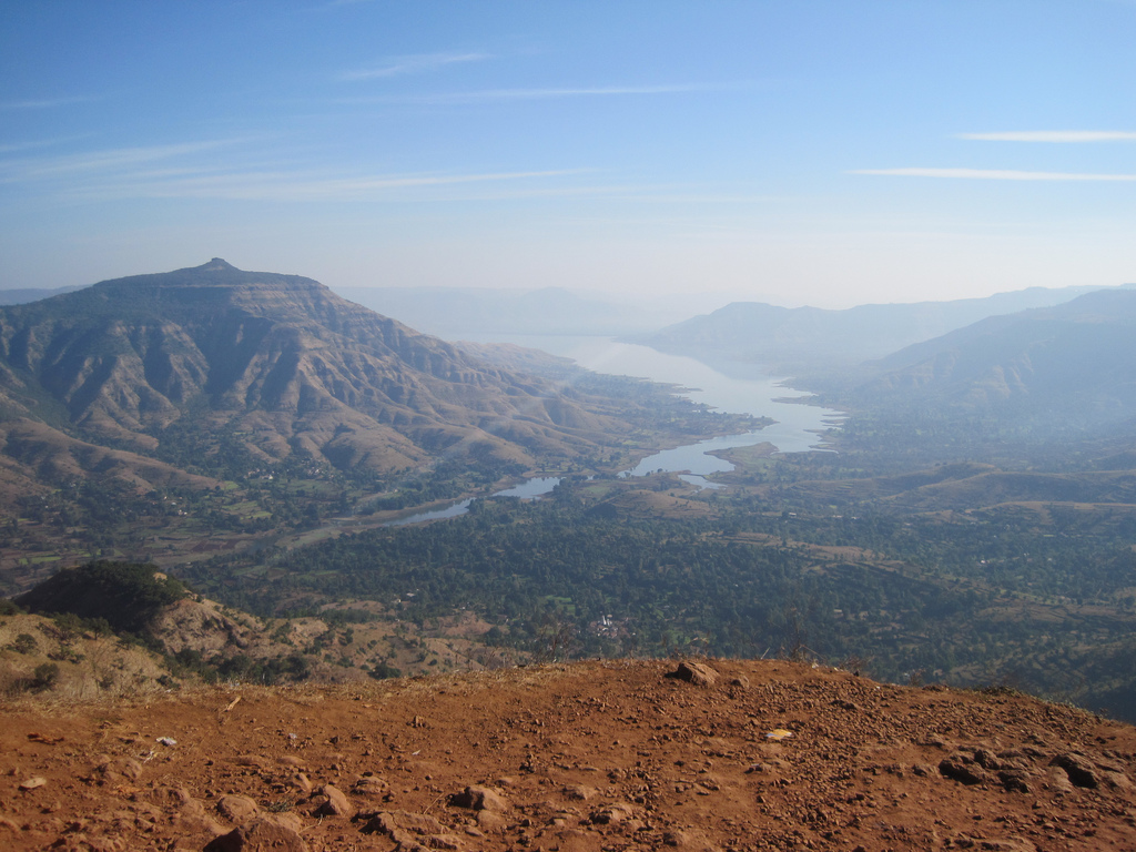 Dhom Lake, below Balakwadi Dam, viewed from Kate's Point near Mahabaleshwar, in Maharashtra. The mountains in the distance are part of the Western Ghats